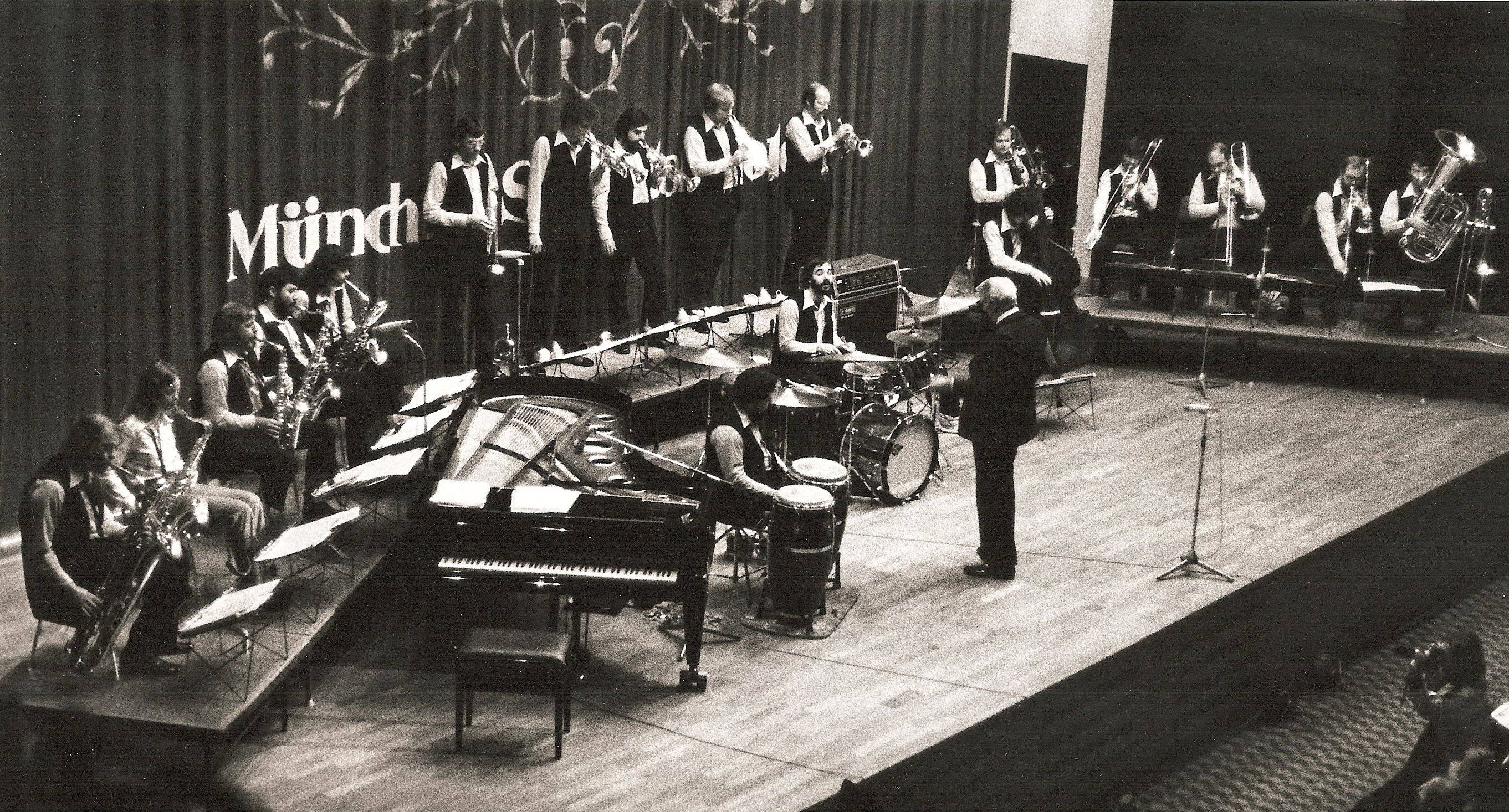 Stan Kenton Big Band 1973